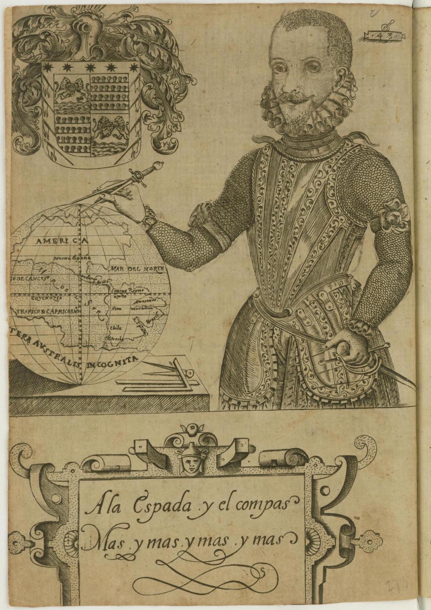 Engraved frontispiece of Bernardo de Vargas Machuca's Milicia Y Descripcion De Las Indias (1599). The Spaniard in the engraving calls for further exploration and conquest of the American continent: "With the sword and the compass--more and more and more and more." "Vargas Machuca (1557-1622) had a distinguished military career in the Spanish army. After serving in Spain and Italy, he fought the Indians from New Granada to Chile, ascending to the rank of captain general of Peru. In response to a request by the Council of the Indies for a report on the best means by which to conquer and colonize Chile, where numerous rebellions had taken place, Vargas undertook instead to write a truly unique books whose subject was the military organization of the Indies. The purpose of the book was mostly practical. Vargas used his long experience to provide useful information for Europeans who were planning to go to the New World. Written in the manner of a modern guide, the Milicia contains interesting advice on how to adapt to both the natural environment and the psychology of the Indians, and its recommendations are frequently illustrated with instances drawn from his own experience. There are discussions of climatic conditions, edible products, animals and insects, common health problems, and the best way to make peace and war with the Indians. A useful glossary of New World vocabulary is also included at the end. No reprints or translations of the Milicia appeared until a modern edition in Spanish was published in Madrid in 1892." Description from Delgado Gómez, Angel, and Susan L Newbury. Spanish Historical Writing about the New World, 1493-1700. Providence, RI: John Carter Brown Library, 1994, 59.